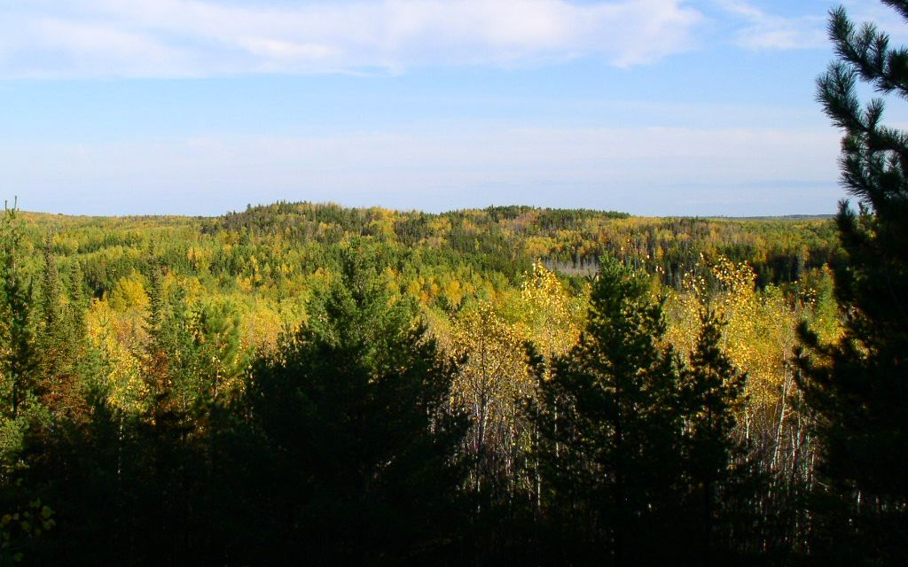 Overlook of Lake Vermilion State Park, Minnesota, USA, accessed by trail via Soudan Underground Mine State Park.